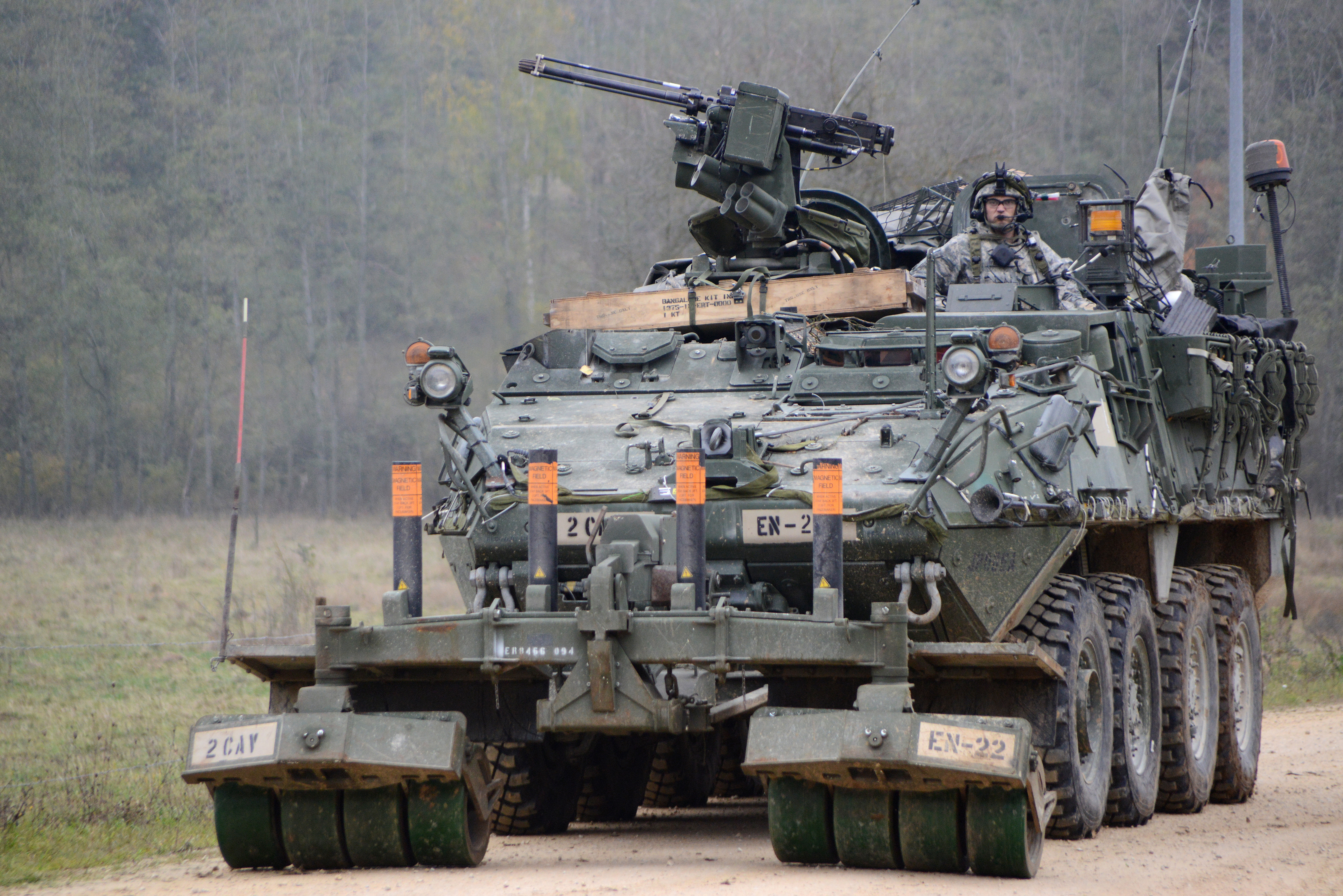 A 2nd Cavalry Regiment Stryker Engineer Support Vehicle rolls on a range road during Saber Junction 2012 at the Joint Multinational Training Center in Hohenfels, Germany, Oct. 24, 2012. Saber Junction is a large-scale, joint, multinational, military training event with U.S. soldiers and more than 1,800 multinational forces. (U.S. Army photo by Gertrud Zach/Released)